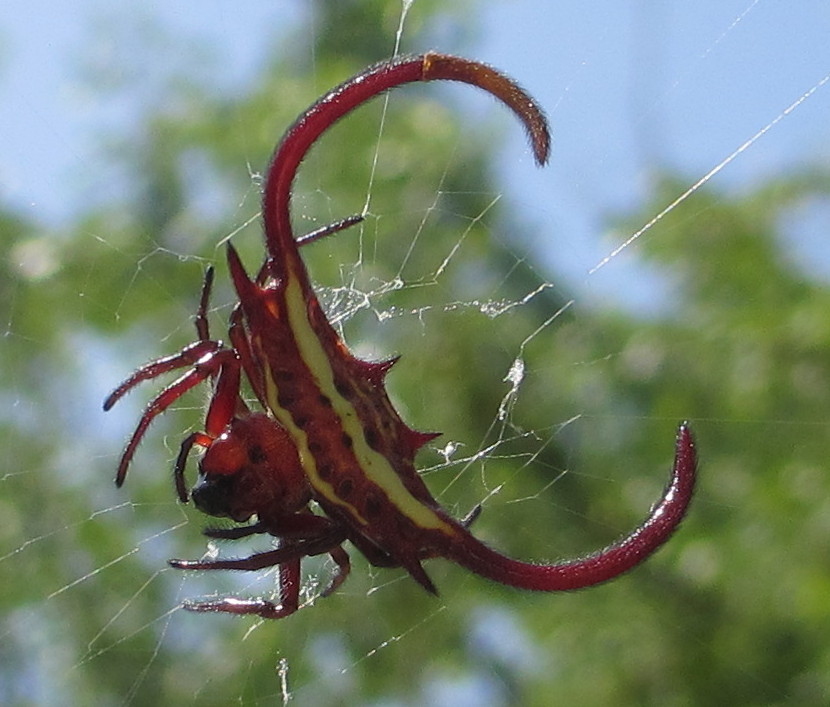 Gasteracantha falcicornis. Spider with fangs. In Mecufi district of Mozambique, close to the sea coast.